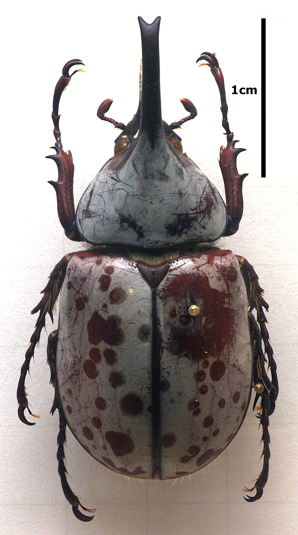 Dynastes granti. Mounted specimen.